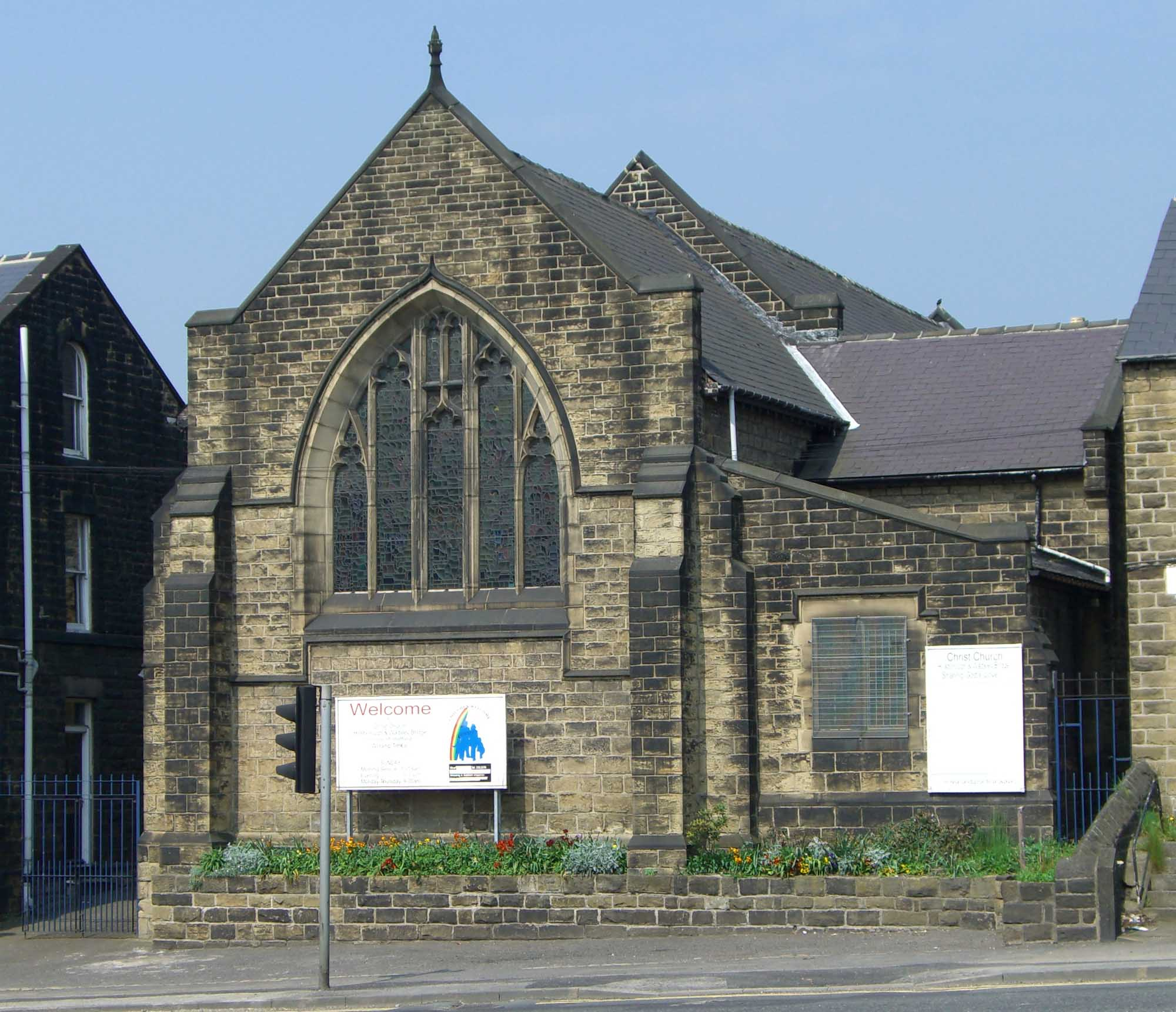 Christ Church parish church, Halifax Road, Wadsley Bridge, Sheffield, South Yorkshire, seen from the southeast